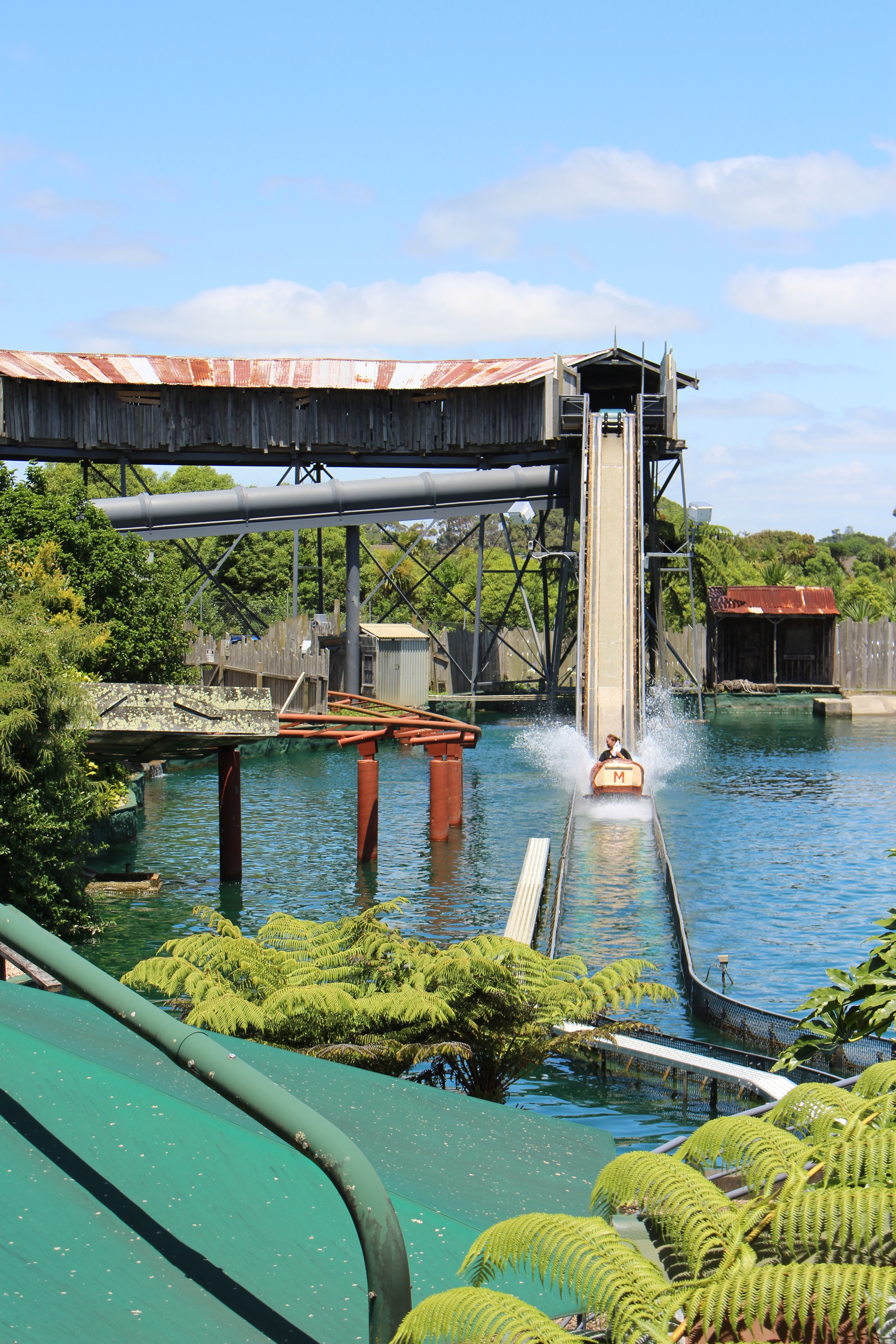 Rainbow's End Log Flume 2019